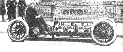 The 1904 Buffum Model G Greyhound was the first race car offered in a regular sales brochure, and the very first production eight cylinder car in the USA. The engine was a flat eight with 80 HP.